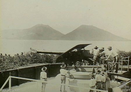 AWM caption : "Fort Raluana, New Britain. c. 1918. This 6 inch Australian Artillery Battery was constructed in 1918 near the entrance to Blanche Bay. It replaced a 4.7 inch battery which had been on Matupi Island." Comment : This shows a BL 6 inch gun Mk V on Vavasseur recoil slide Mk I.